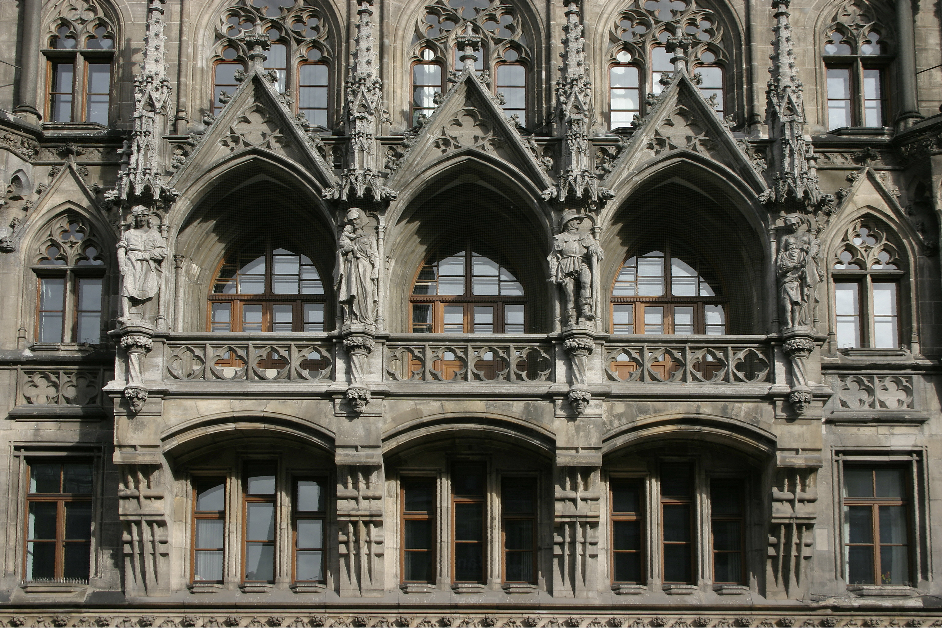 Munich – New Town Hall - Loge